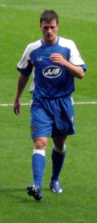 Ryan Taylor